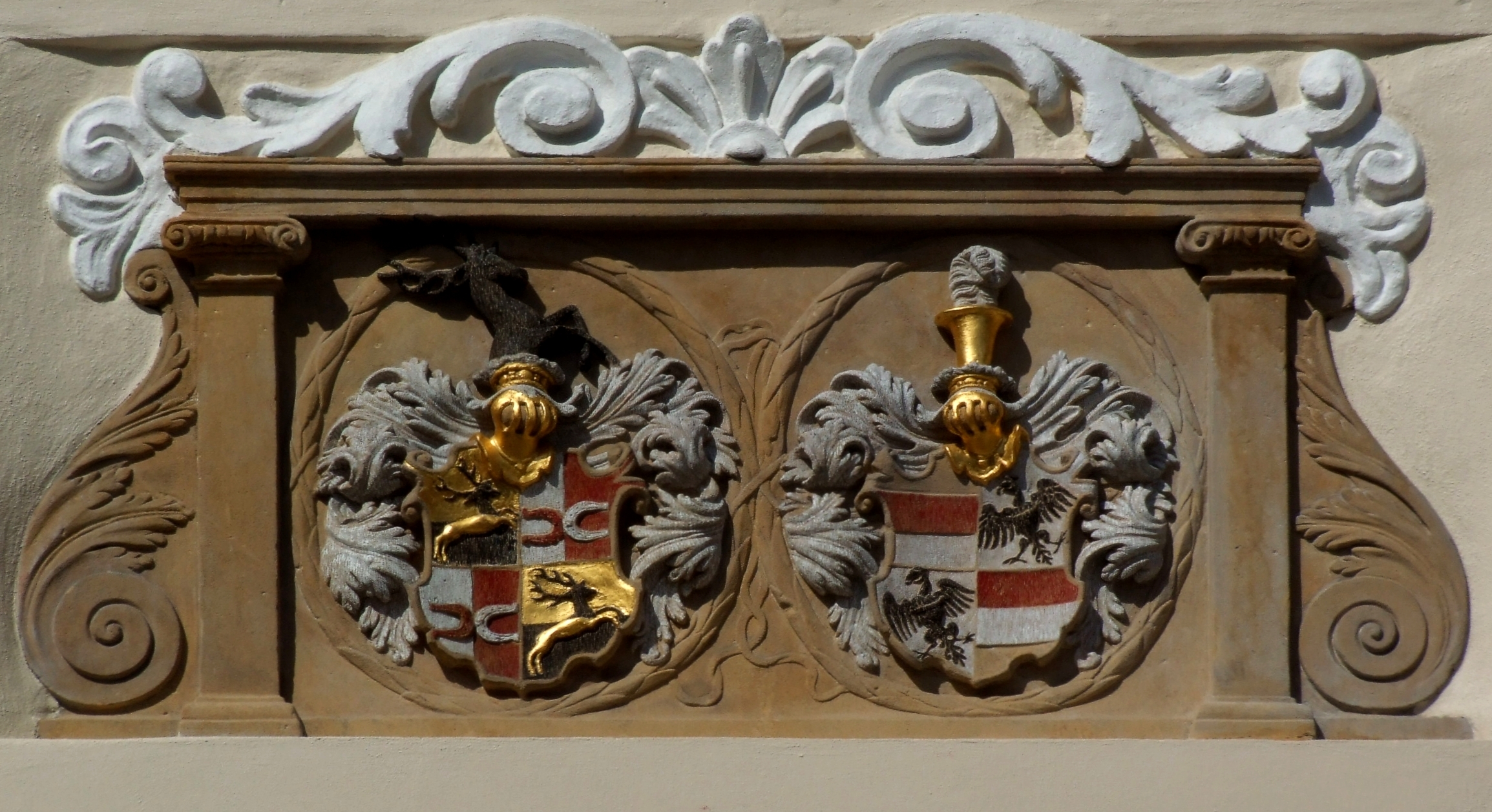 Coats of arms of Proskowsky family (left) and Lobkowitz family in Opole (Oppeln)